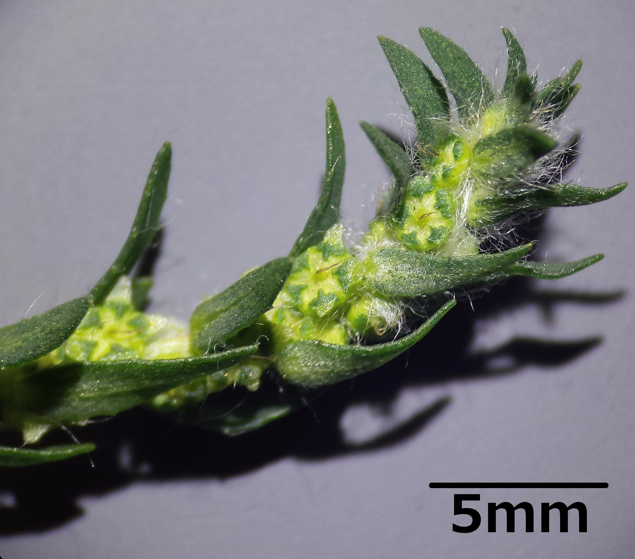 Stipe with leaves and fruits Taxon: Bassia scoparia cf. subsp. densiflora (sensu Fischer et al. EfÖLS 2008) Location: corner An der Schanze / Dückegasse, Donaufeld, Vienna-Floridsdorf - ca. 160 m a.s.l. Habitat: ruderal wayside inbetween fields